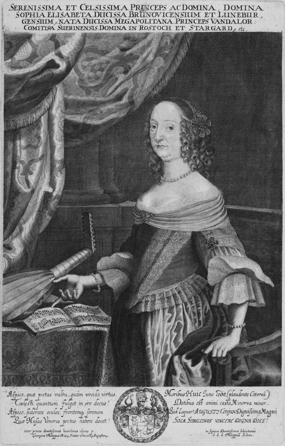 Duchess Elisabeth Sophie of Mecklenburg (1613-1676), wife of Augustus the Younger, Duke of Brunswick-Lüneburg